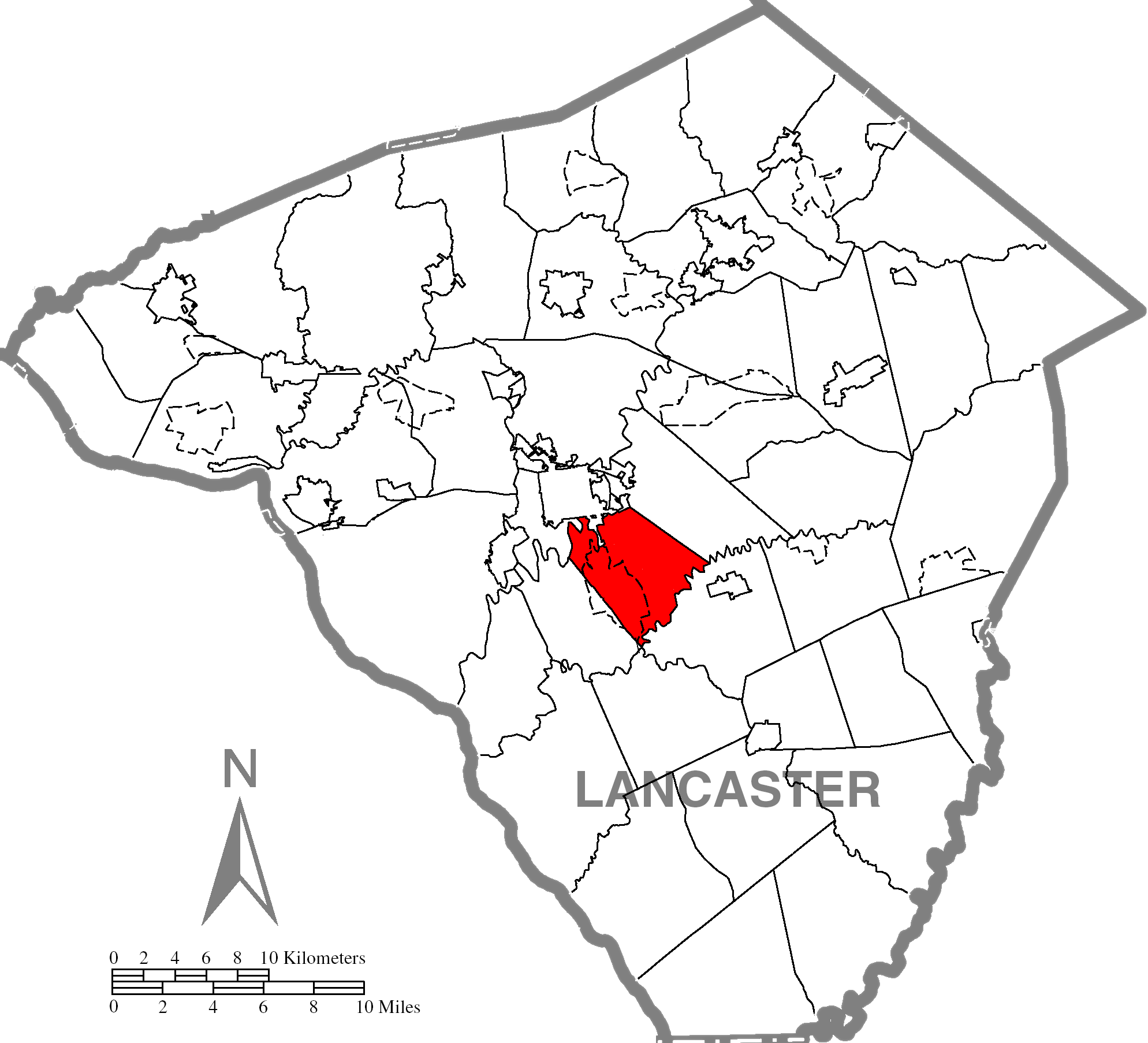 Highlighted Lancaster County map of West Lampeter Township.